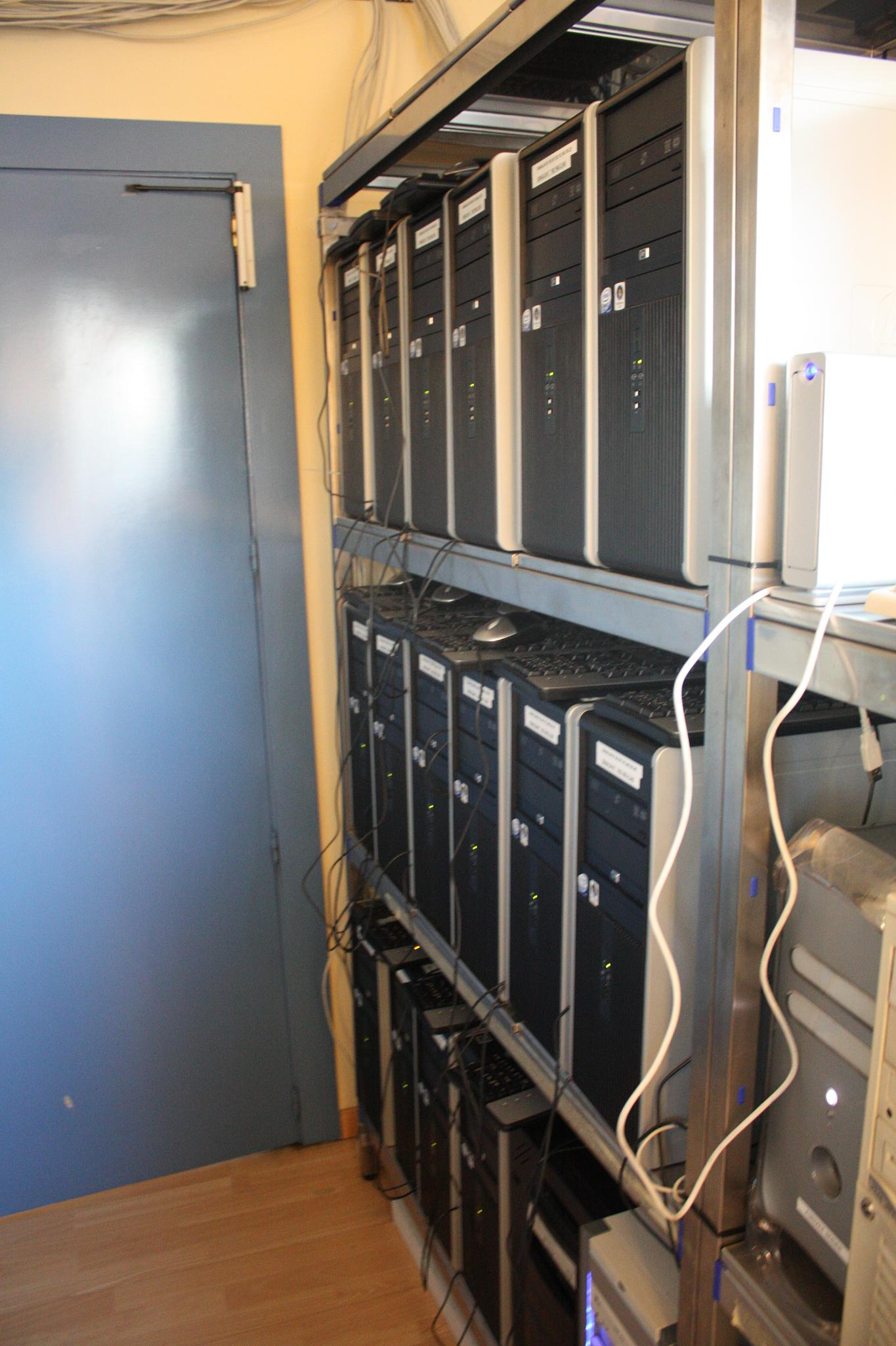 A company render farm in Madrid.